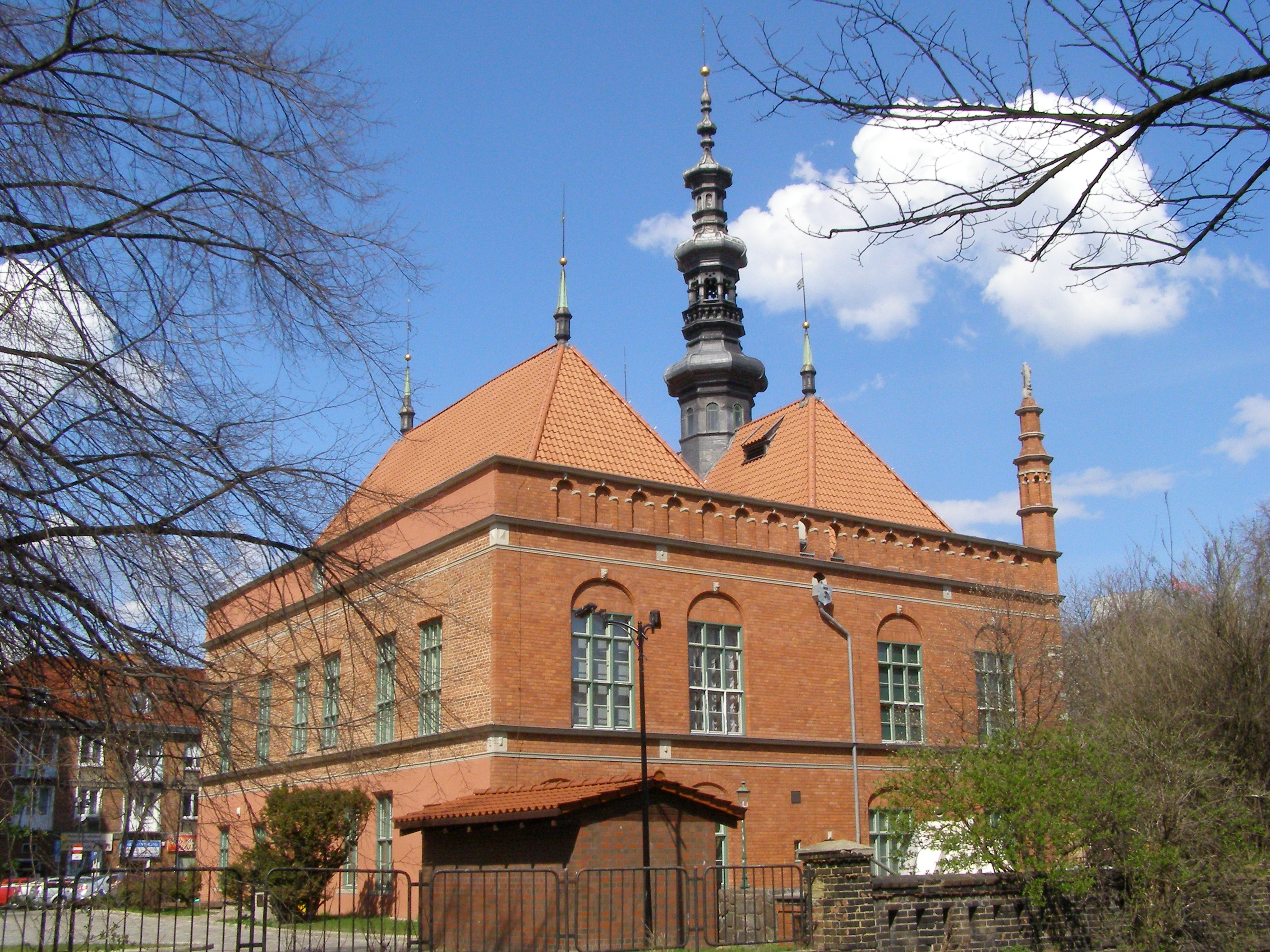 Gdańsk - Old Town Hall